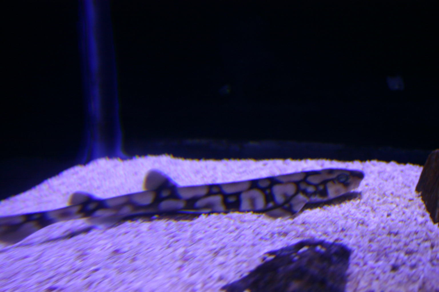 Juvenile chain catshark (Scyliorhinus retifer) at the Virginia Aquarium